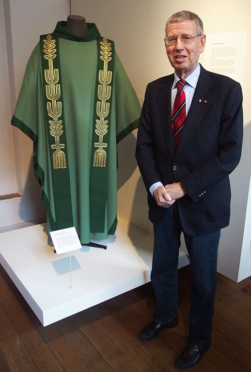 Ben Stadelmaier, former business owner of the church fashion company Stadelmaier, poses next to one of his company's bestsellers, the "Tree-of-Life chasuble" shown here in green. The original design for the chasuble was by Franz Pauli in 1970. The Stadelmaier name became known within church circles for the standing collar and built-in stole, both of which were featured in this model.